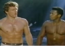 Public domain photo of actors Joe Robinson and Harry Baird in the movie Thor and the Amazon Women